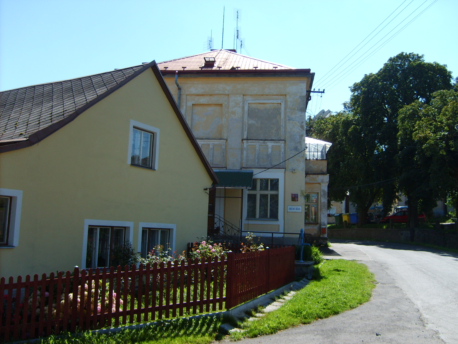 Municipality office in Vlkovice.